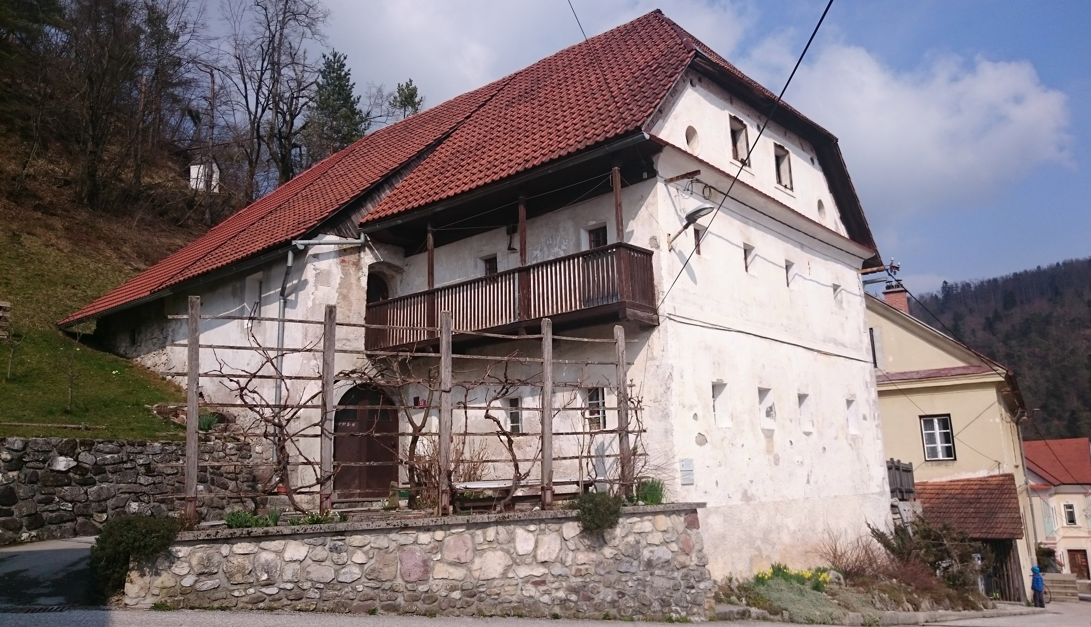 Ostetar house, 16th centurySlovenščina: Oštetarjeva hiša iz 16. stoletja je bila last grajskega oskrbnika. V notranjosti je še vedno ohranjen izvirni leseni strop in kamnito notranje stopnišče in lepo oblikovani notranji portali. Ohranila so se tudi gotska in baročna okna.